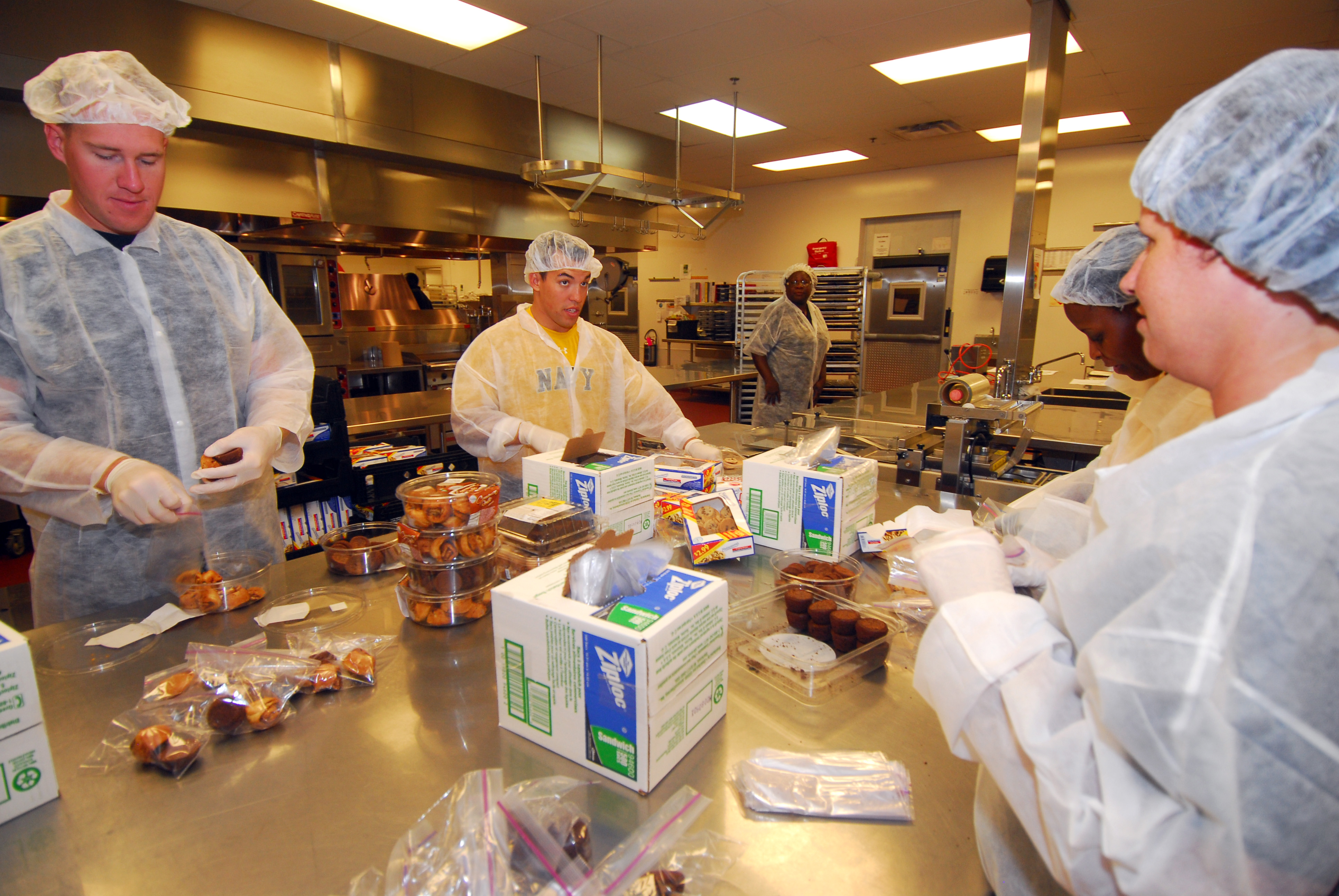 CLEVELAND (Sept. 1, 2010) Lt. j.g. Mike Wentz and Ensign Mike Beall, both assigned to the amphibious transport dock ship USS Cleveland (LPD 7), and Logistics Specialist Megan Tobin and Personnel Specialist 2nd Class Yolanda Lawler, both assigned to the Navy Operational Support Center, Akron, pack food for distribution to various locations throughout the Cleveland metropolitan area during a Cleveland Navy Week community service event. Cleveland Navy week is one of 19 Navy Weeks planned across America this year. Navy Weeks are designed to show Americans the investment they have made in their Navy and increase awareness in cities that do not have a significant Navy presence. (U.S. Navy photo by Mass Communication Specialist 1st Class Terry Matlock/Released)